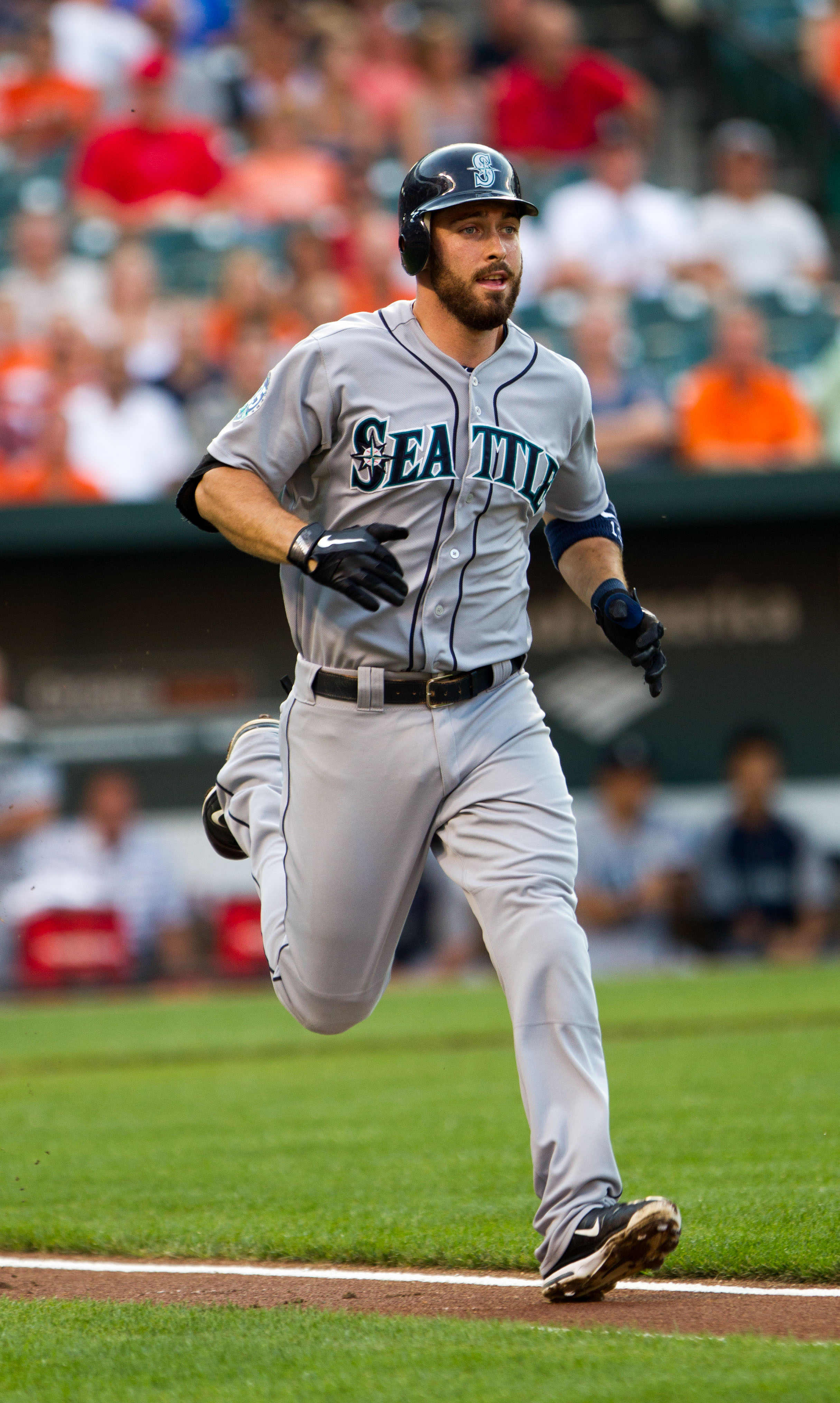 Mariners at Orioles August 6, 2012